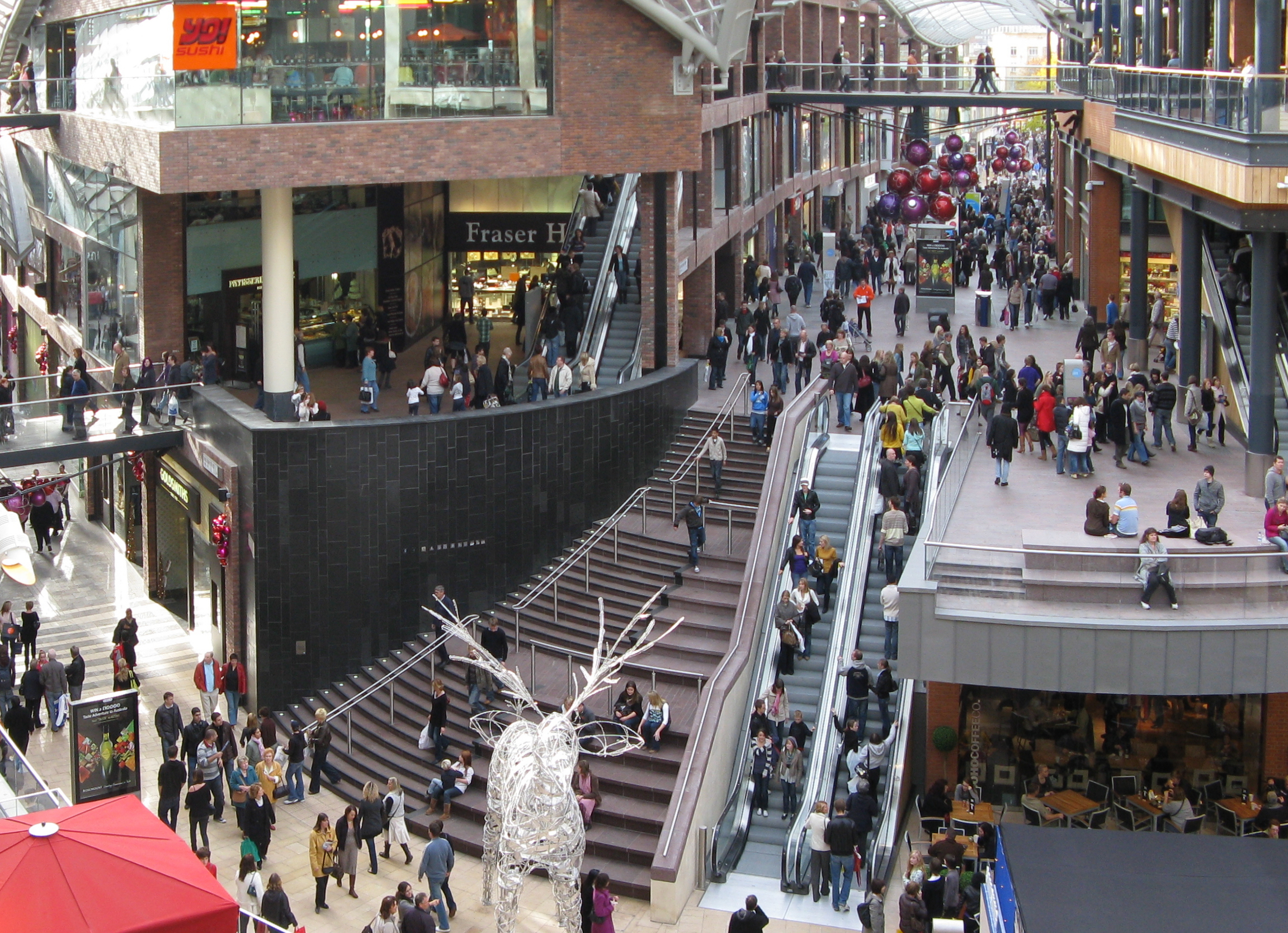 Staircase and escalators at Cabot Circus shopping centre, Bristol, England. The reindeer is part of the Christmas decorations.